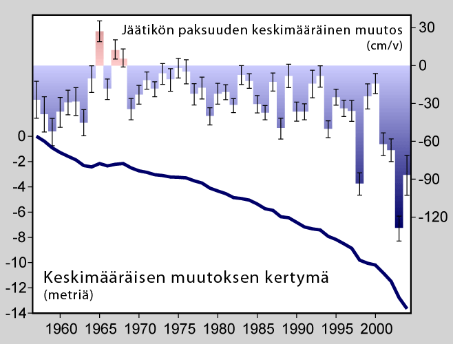 A figure showing the rate of average thickness change in mountain glaciers around the world.